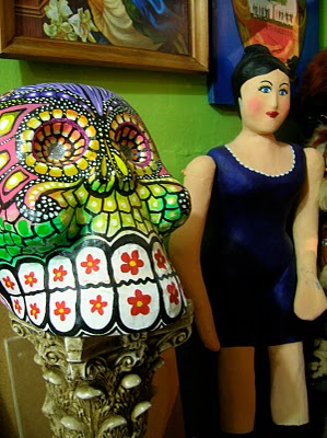 Cartonería doll and decorated skull also by Mtro. Carlos Derramadero Vega workshop, Celaya, 2010